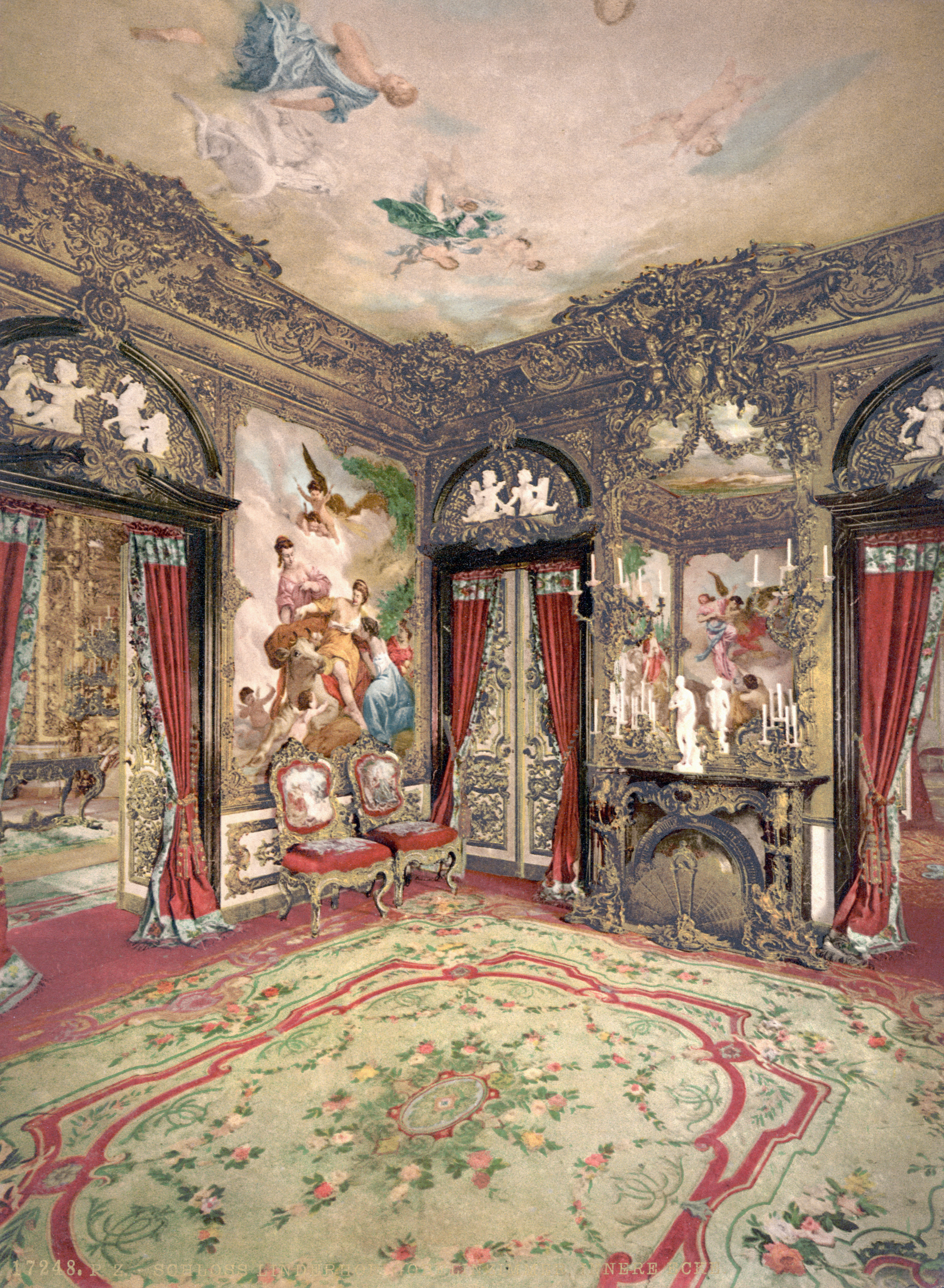 Schloss Linderhof, Gobelin Tapestries, around 1900